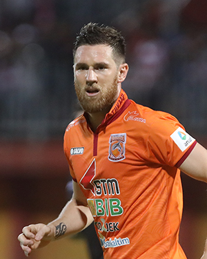 Shane Smeltz with Borneo FC on Gojek Traveloka Liga 1 Indonesia